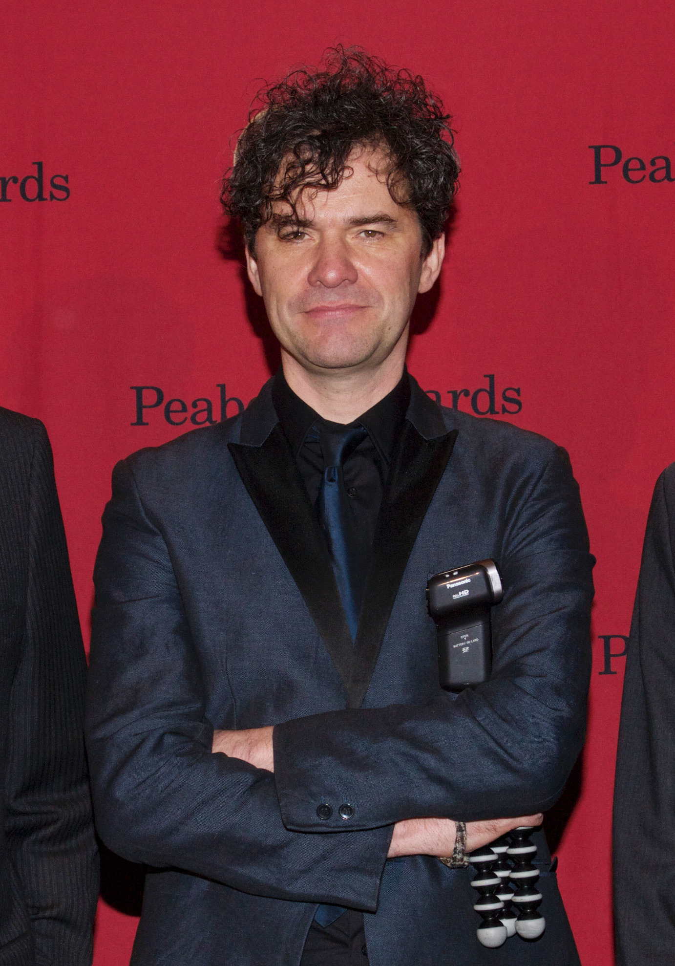 Robert Osbourne and Mark Cousins with the Peabody Award for TCM The Story of Film